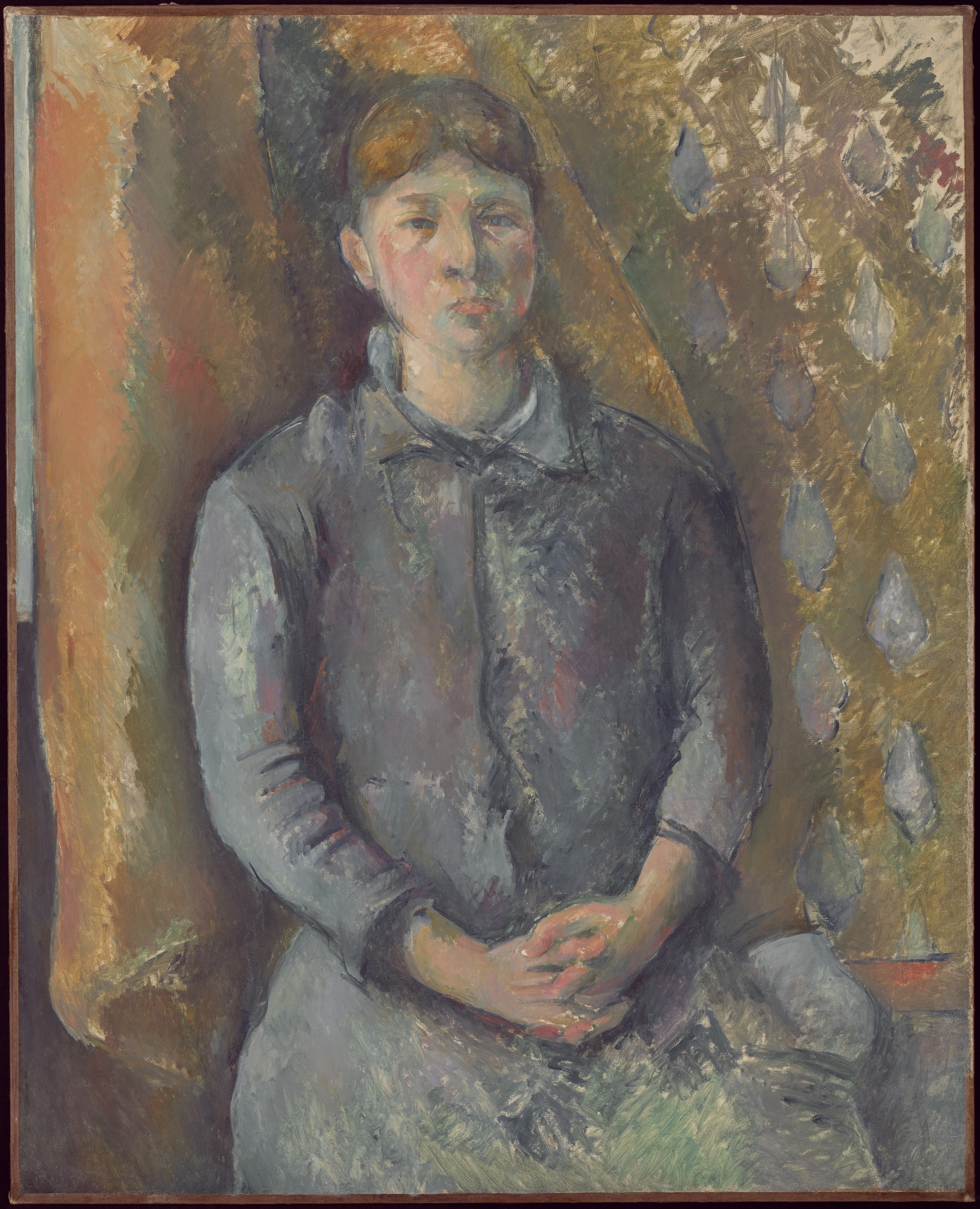 "Madame Cézanne" by Paul Cézanne.